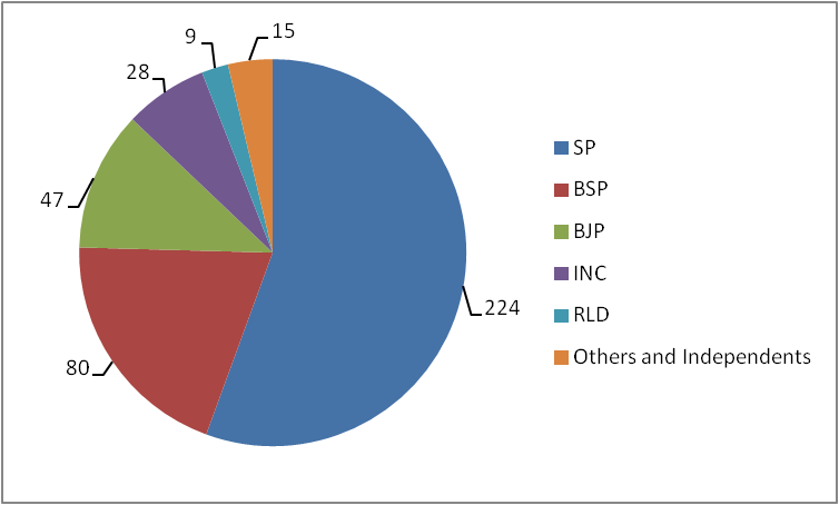 The image is a pie-chart representing the no of seats won by different parties in Uttar Pradesh assembly elections 2012